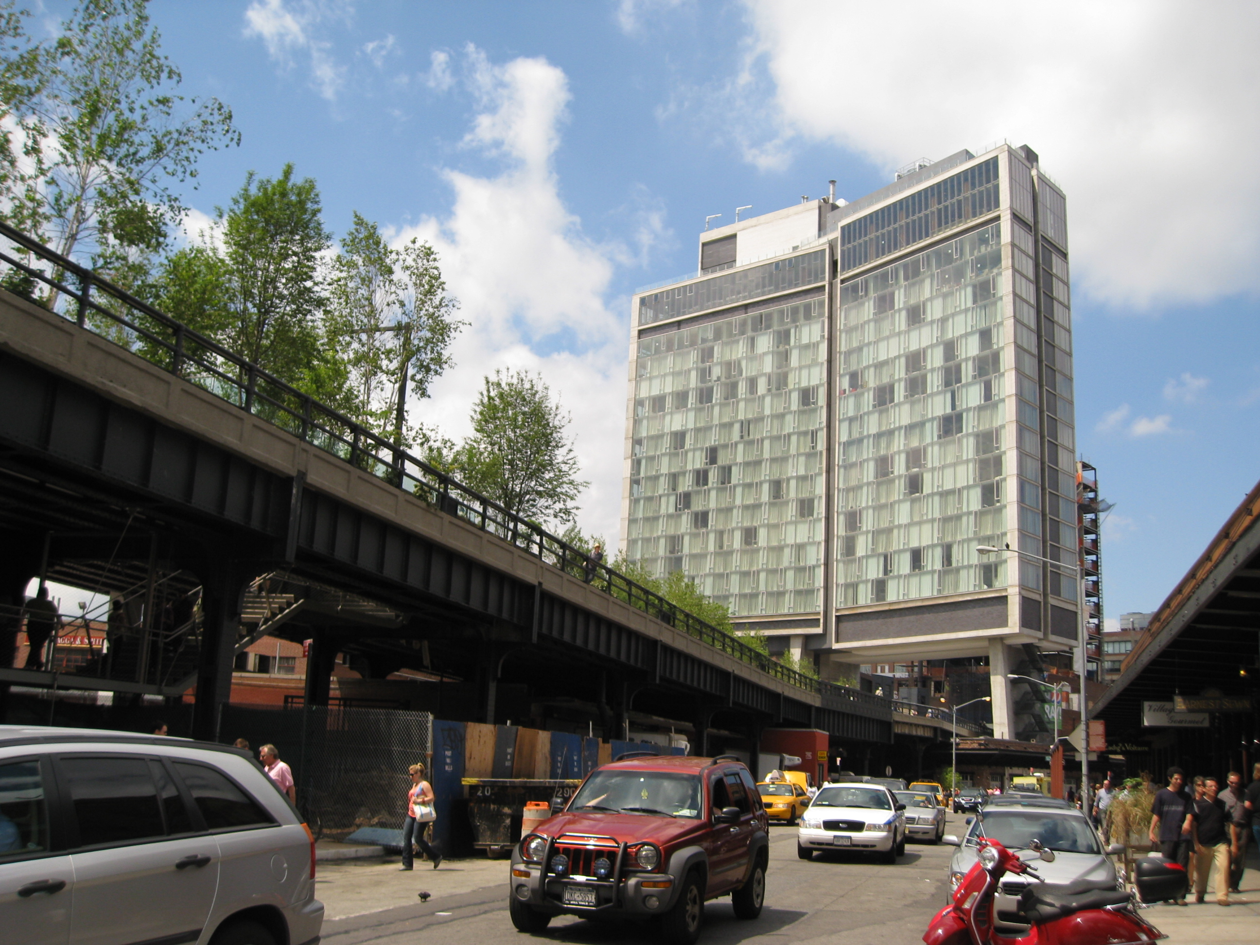 The Highline and The Standard Hotel in the Meatpacking District in New York.